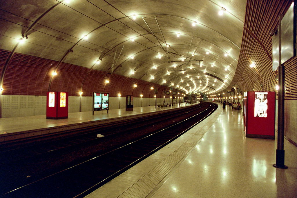 Underground train station taken in Monaco-Ville, La Condamine